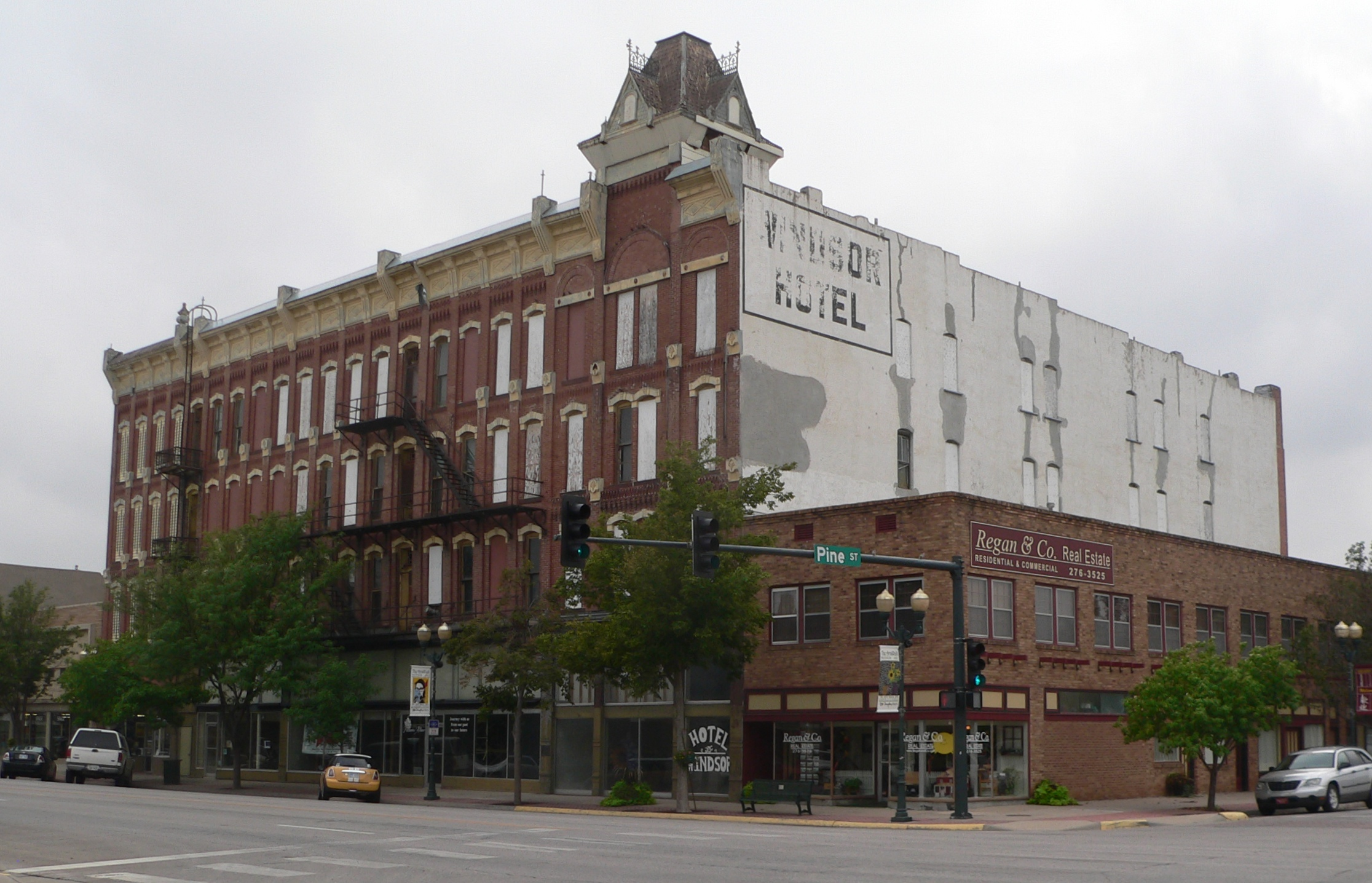 Southwest corner of Main Street and Pine Street in Garden City, Kansas. The photo is dominated by the four-story Windsor Hotel.